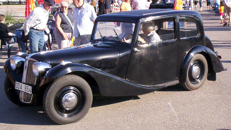 Aero 30 1935